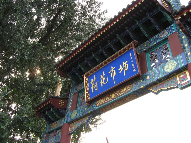 The Paifang at the Lotus Market in Beijing